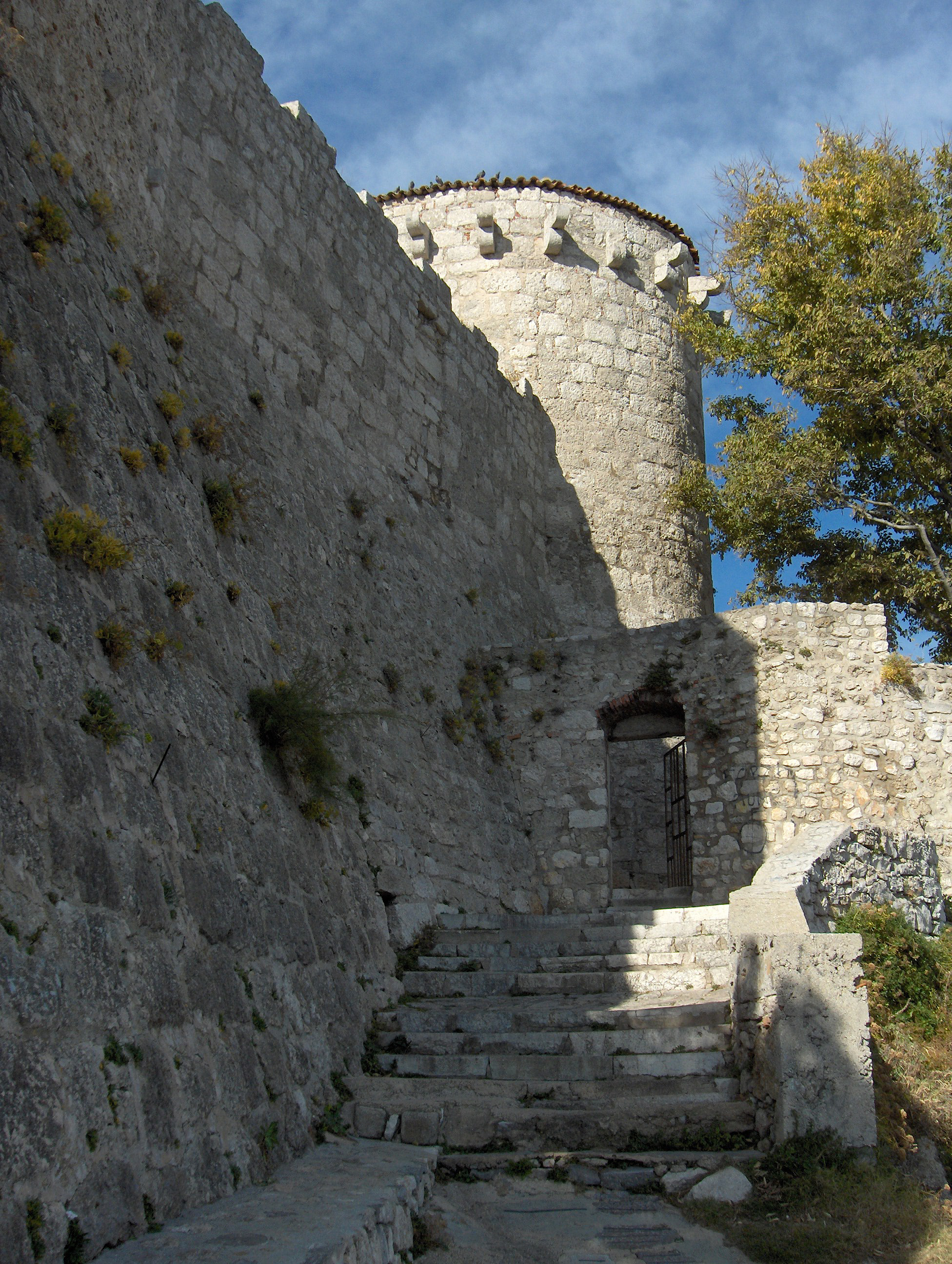 City wall; Baška, on the island of Krk, Croatia